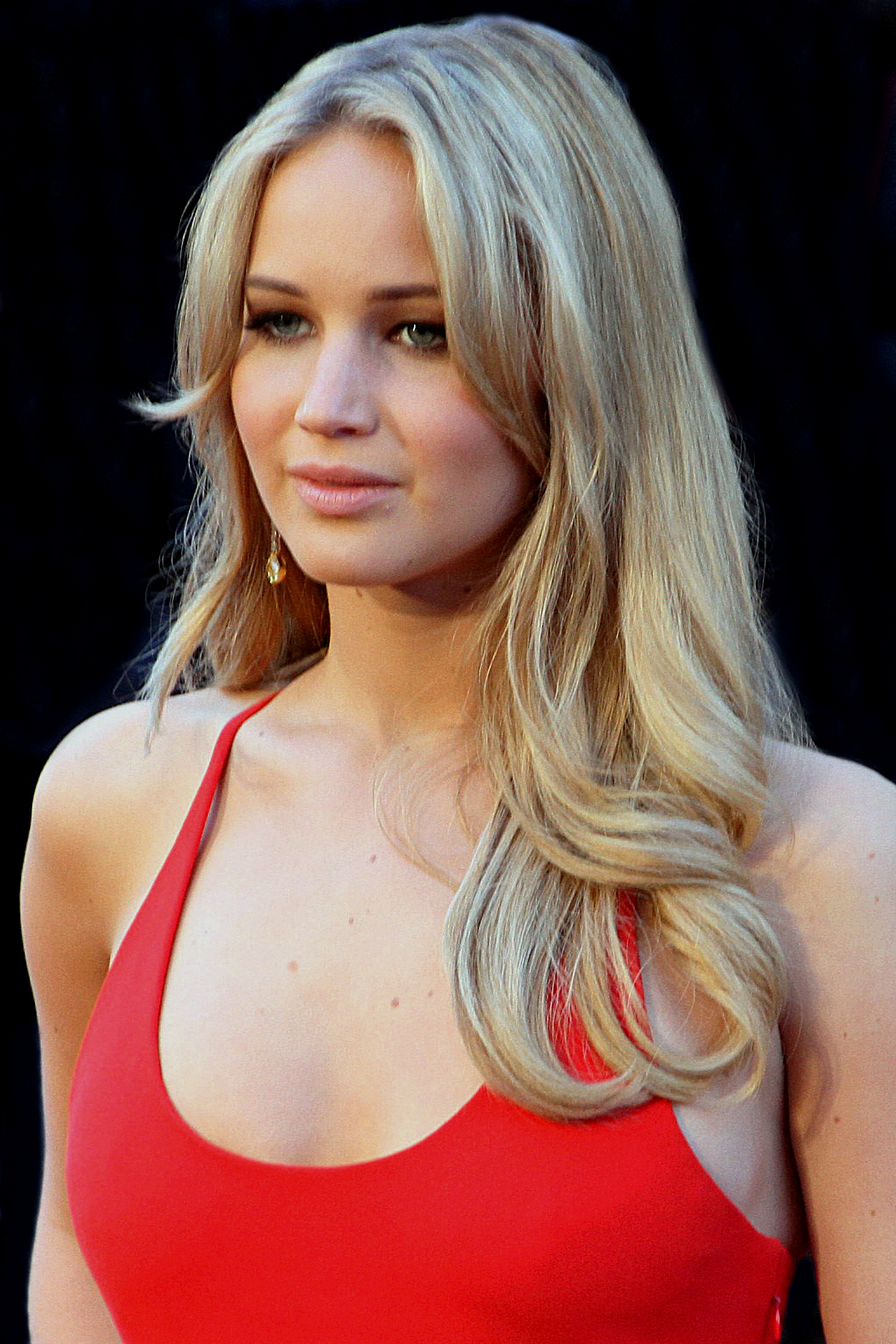 Jennifer Lawrence at the 83rd Academy Awards.